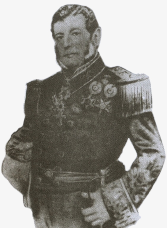 Joaquim José Inácio, Viscount of Inhaúma, c.1867